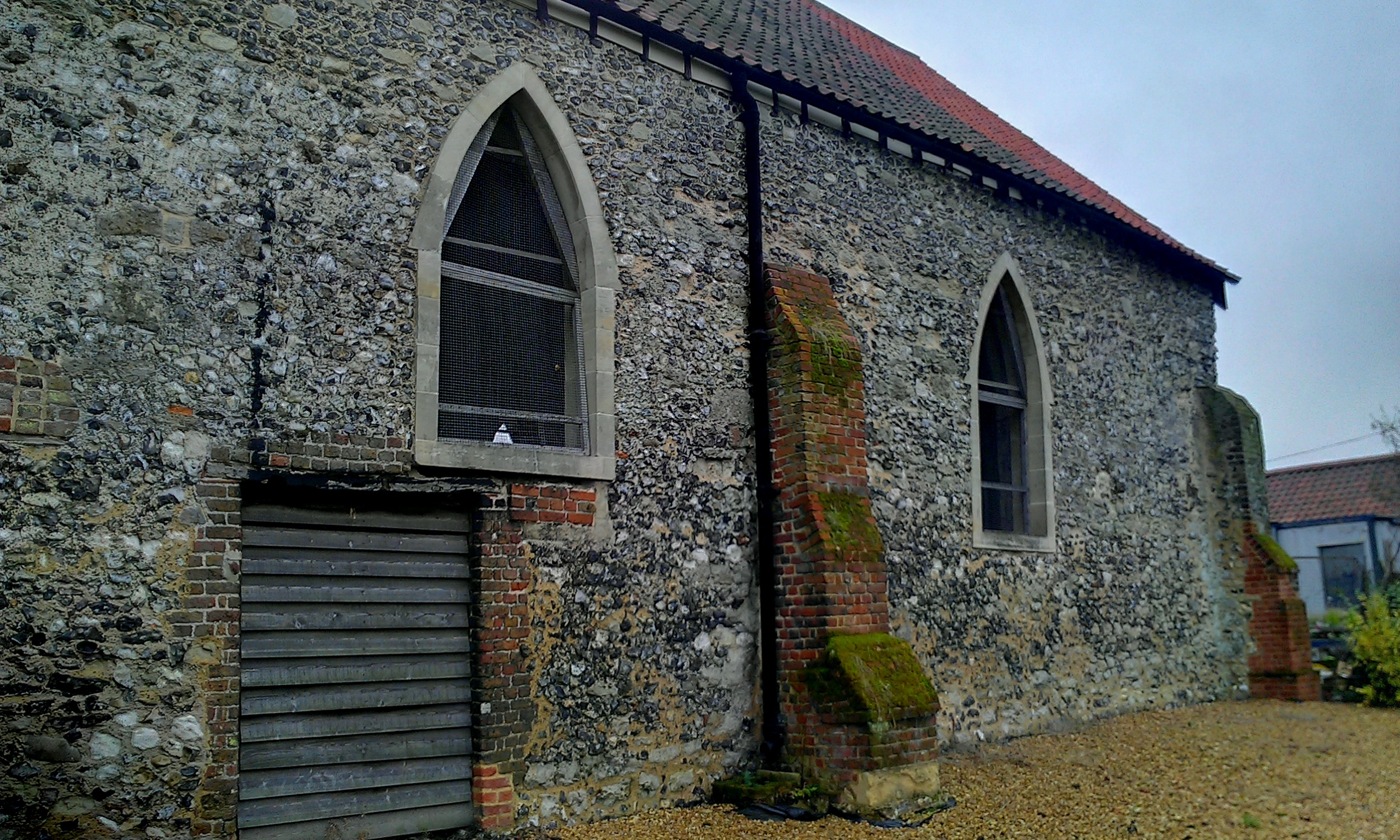 One side of the former parish church of St Botolph, Ruxley, Southeast London (formerly Kent)